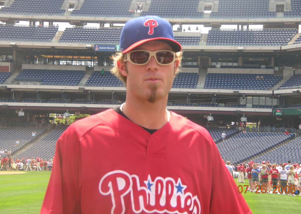 Jayson Werth, Phillies Photo Day 2008